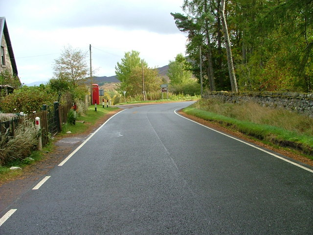 Road junction at Catlodge The road to the right is the A889 to Dalwhinnie. The minor one to the left joins the A9 Perth to Inverness road at Glentruim.